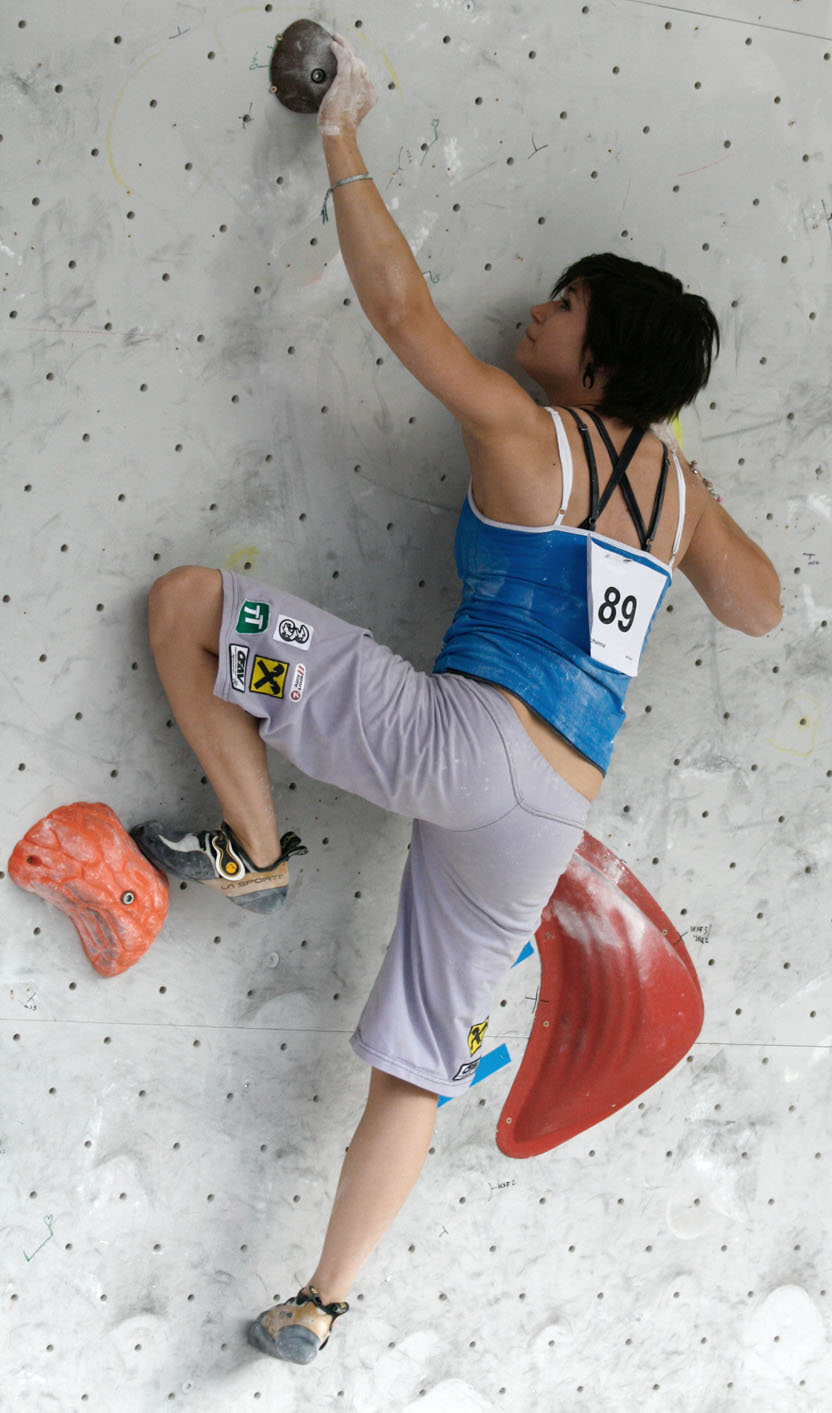 Johanna Ernst during qualifications at the IFSC Boulder Worldcup Vienna 2010.